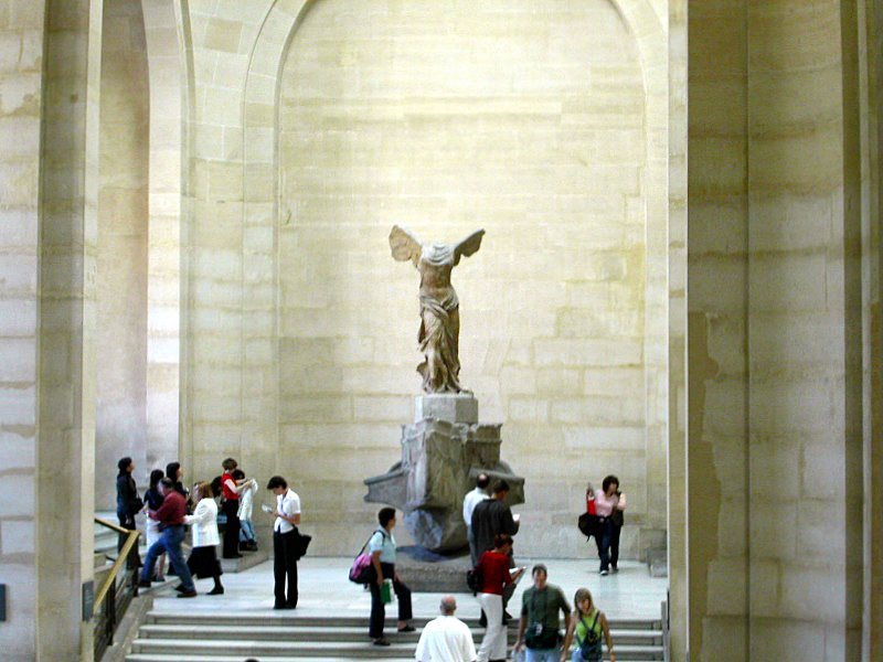 Winged_Victory_of_Samothrace in Louve Museum